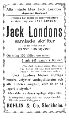 Flyer advertising Swedish translations of the works of Jack London